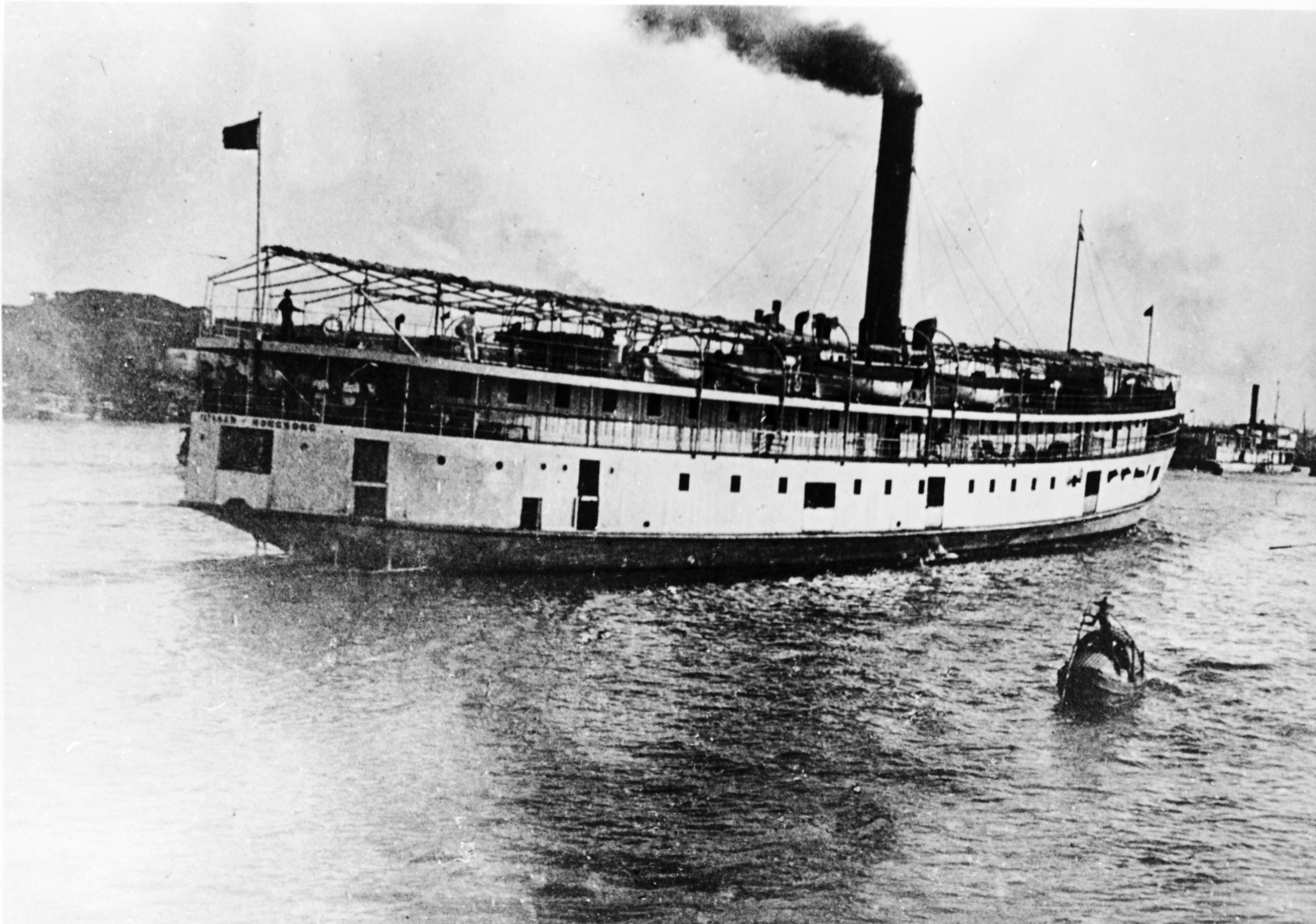 Photo of the SS Fatshan I on the Pearl River